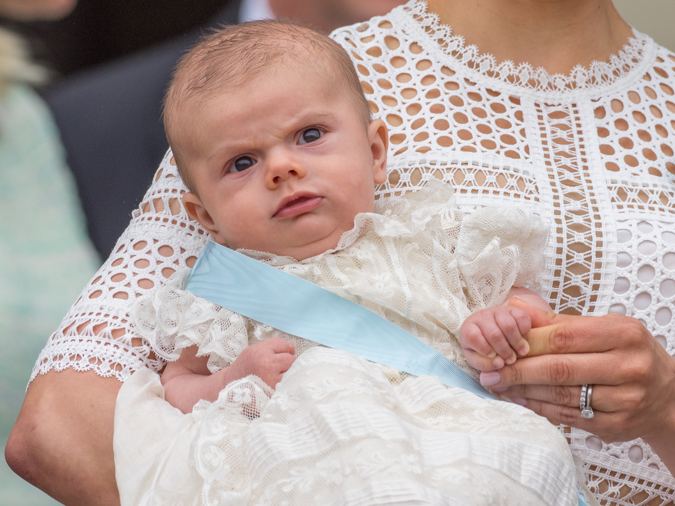 Crown Princess Victoria of Sweden with children in 2016